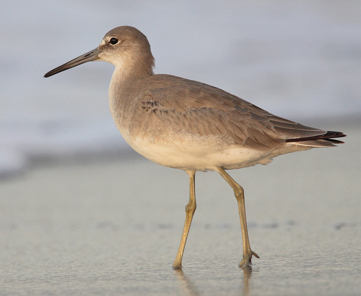 A Willet (Tringa semipalmata, previously Catoptrophorus semipalmatus) in Panama.